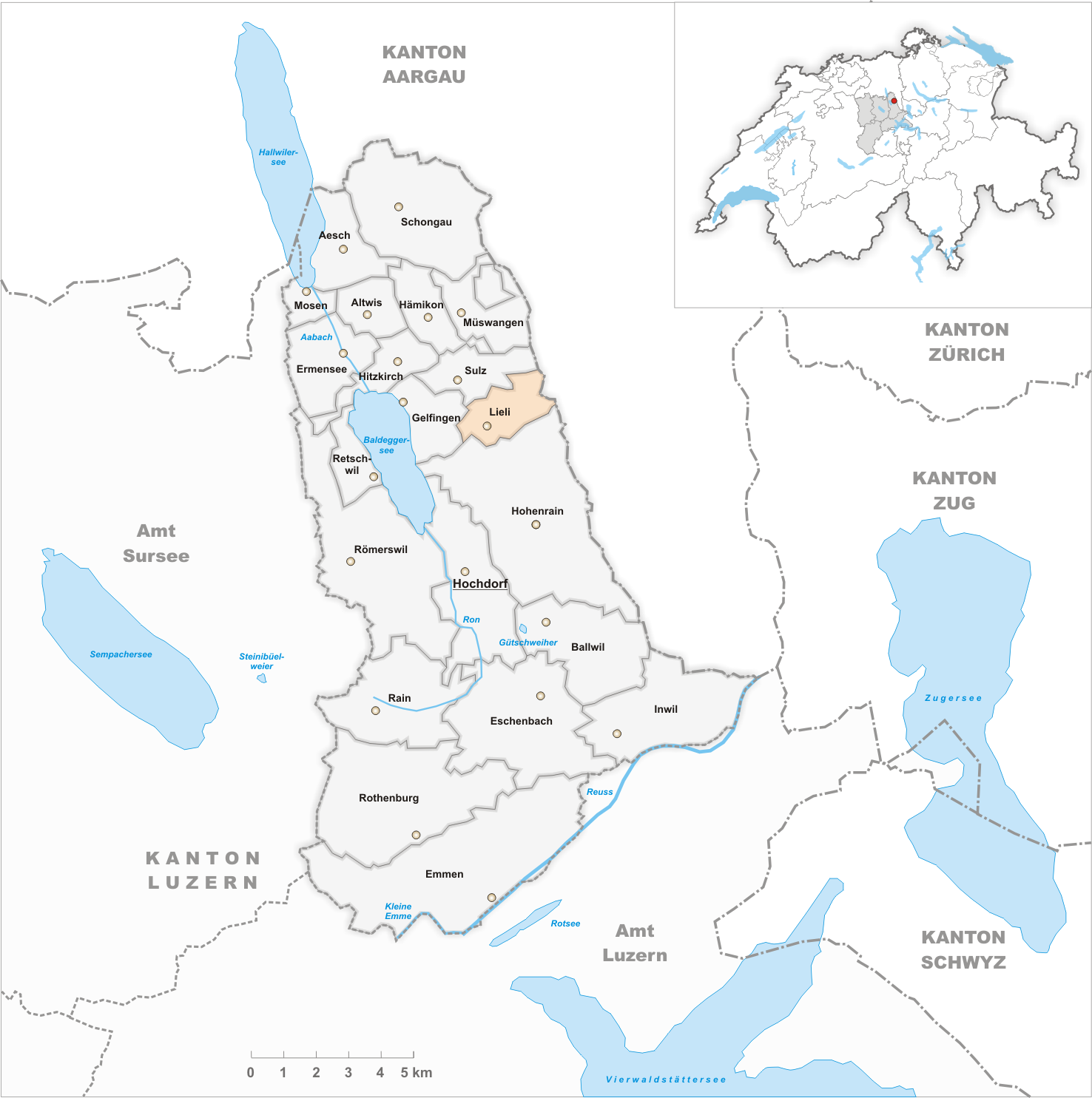 Municipality Lieli Artist: Tschubby